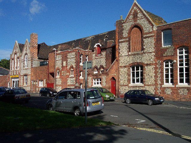 Ham Road Orphanage. I'm told this was Shoreham's orphanage (or possibly workhouse?).